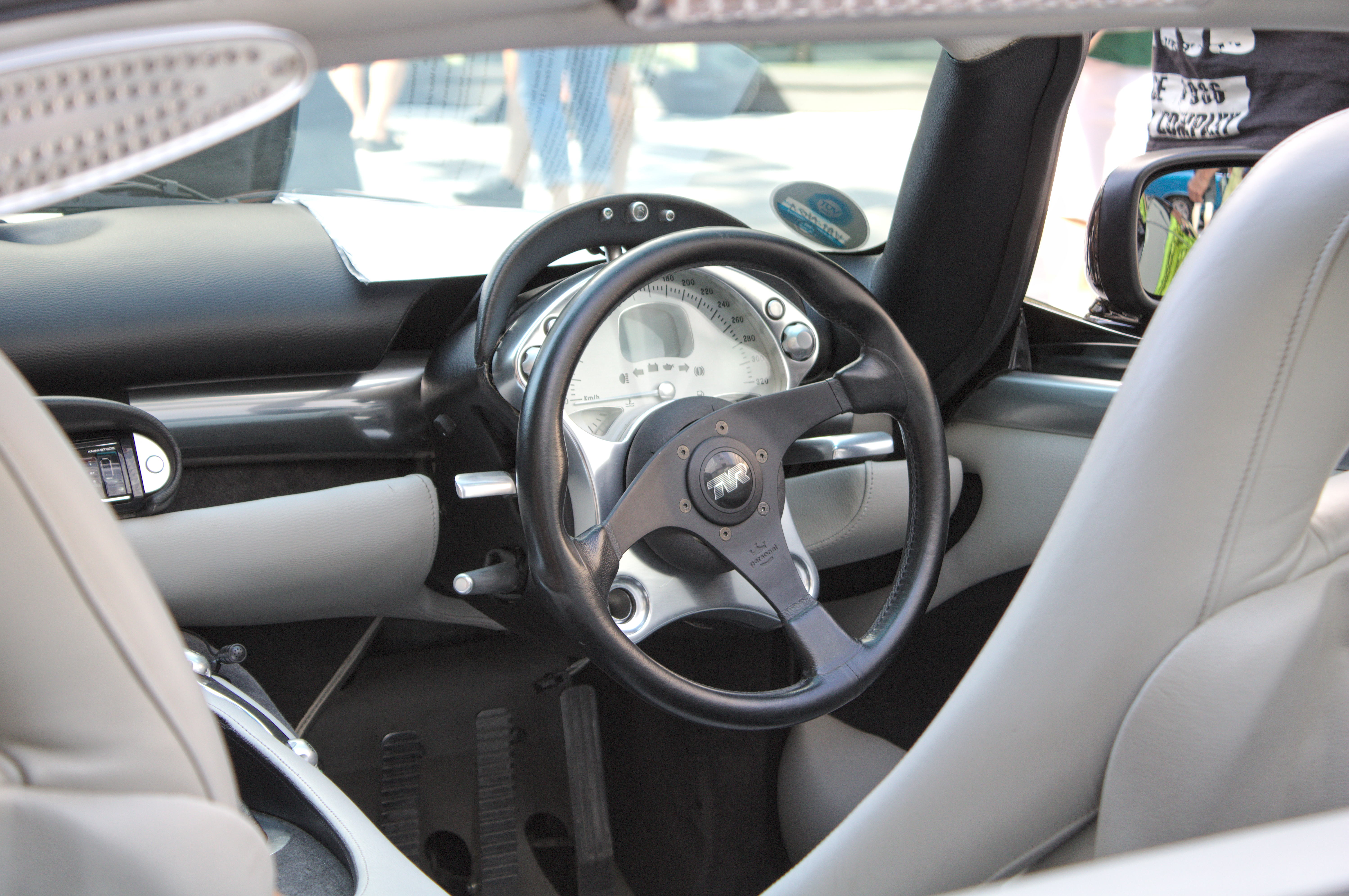 TVR_Tuscan_Speed_Six in Stuttgart